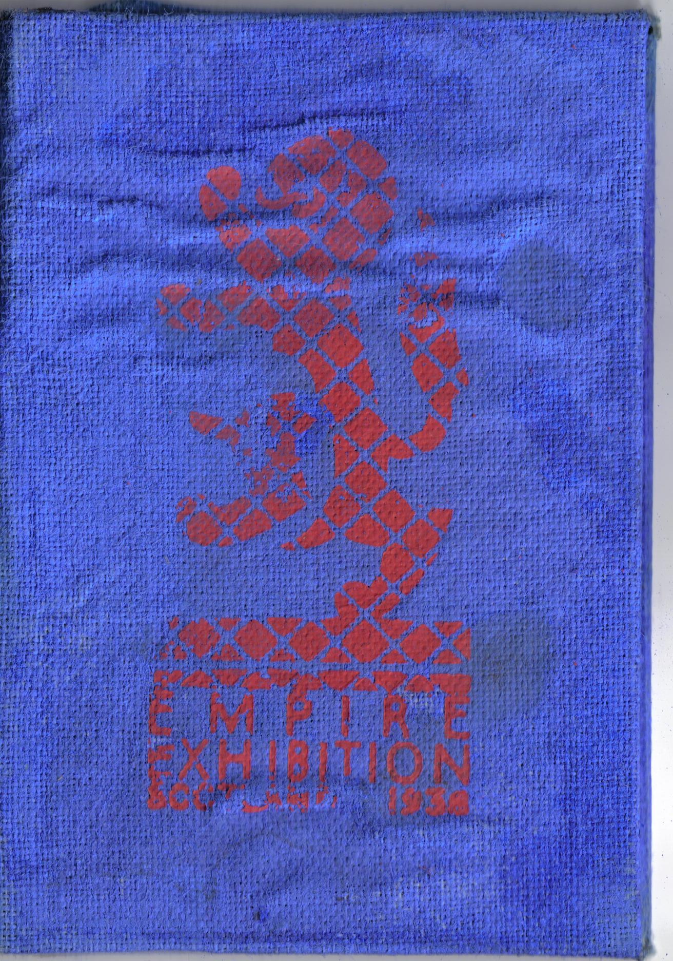 The cover with the logo of the a 1938 Empire Exhibition Season Ticket. Glasgow - Bellahouston Park, Scotland.Rosser 13:30, 14 August 2007 (UTC)